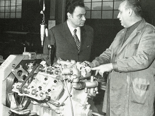 Giulio Alfieri and SM V6 engine he designed for the Citroen SM that was launched in 1970